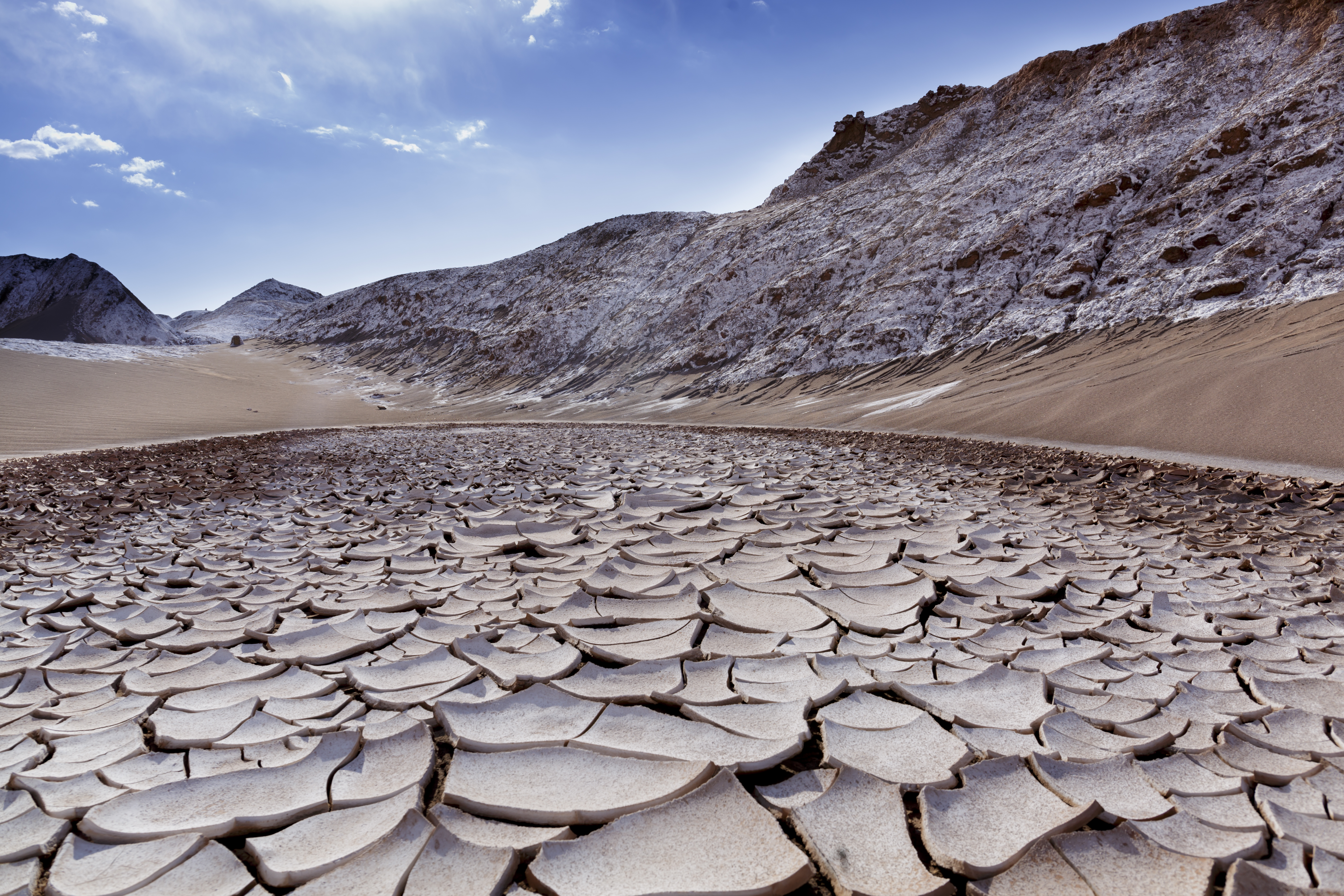 PanAmericana 2017 - the image was taken on an overlanding travel from Ushuaia to Anchorage - taken by Thomas Fuhrmann, SnowmanStudios - see more pictures on / mehr Aufnahmen auf